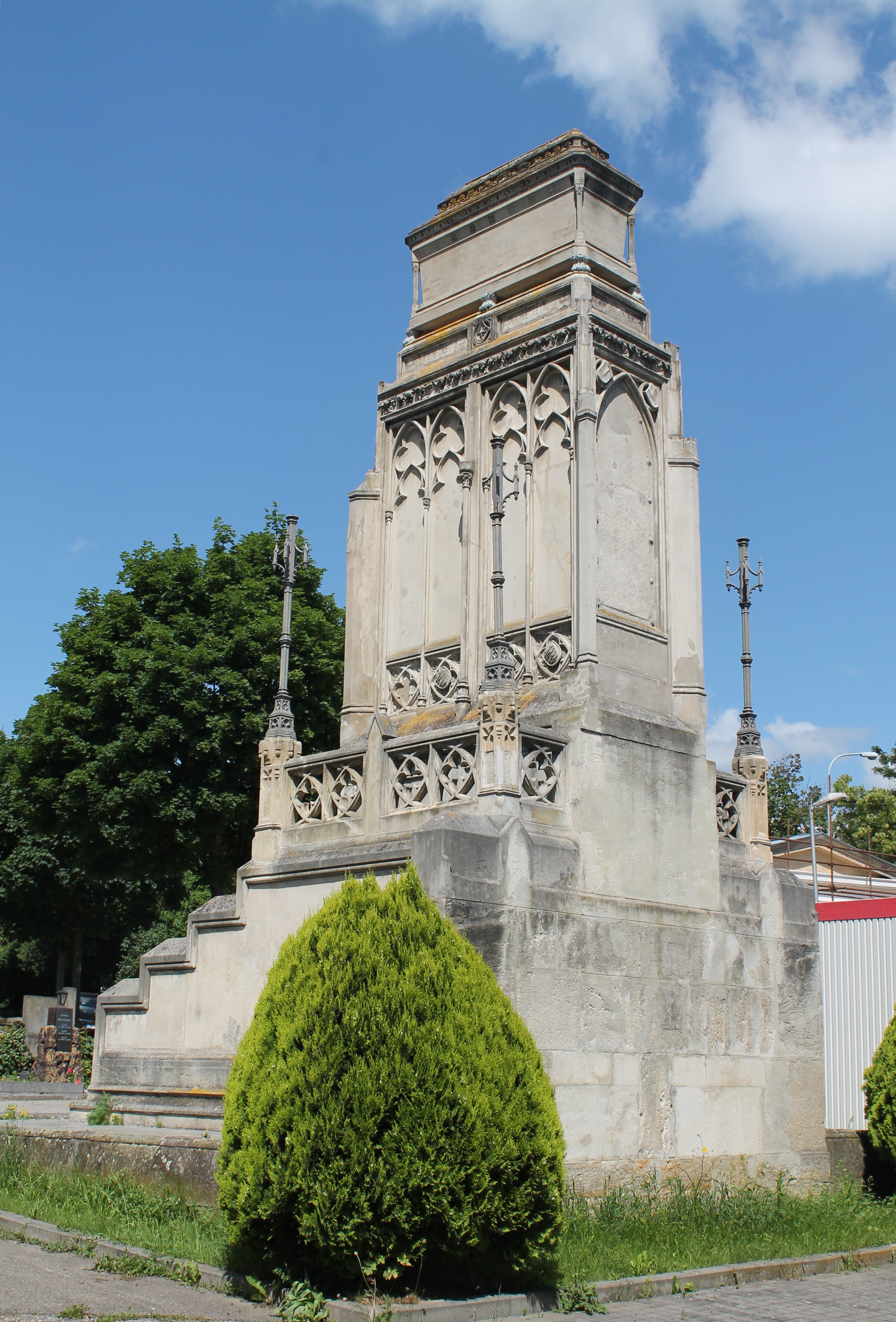 Tomb of the House of Herring, Central cemetery, Brno, Czech Republic